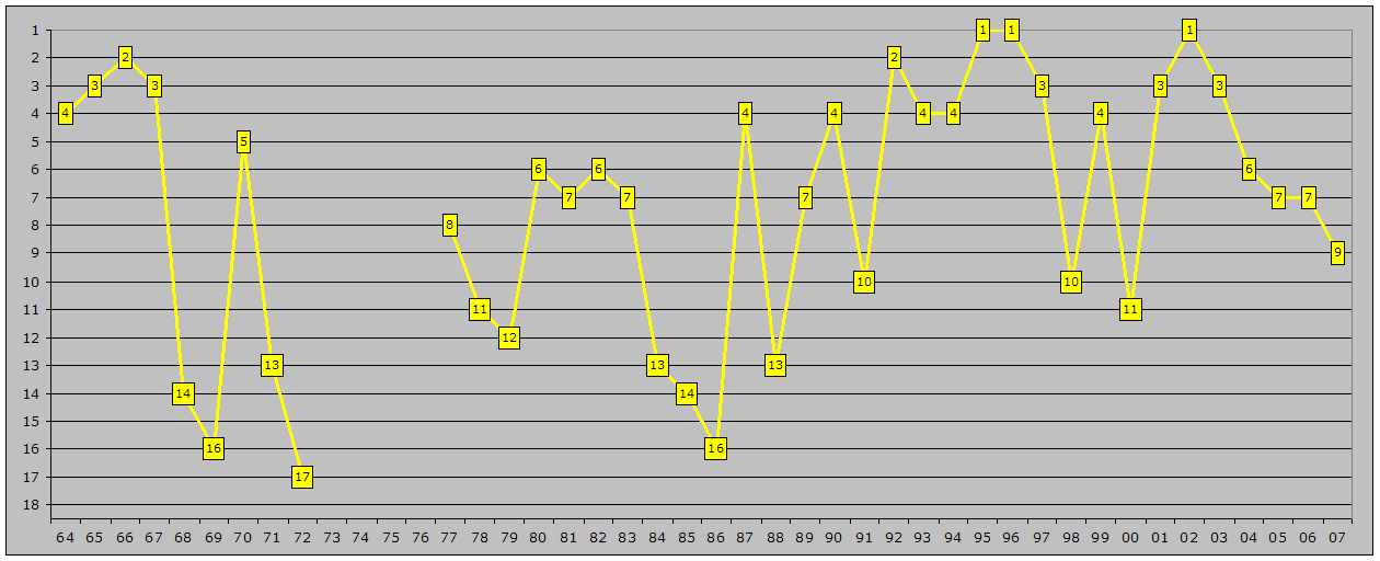 Borussia Dortmund results